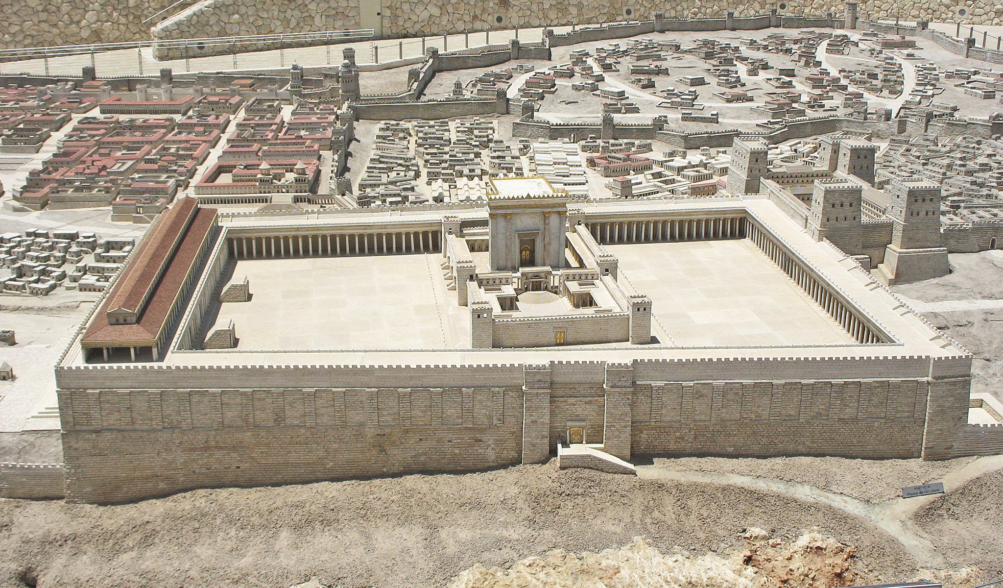 The Second Jerusalem Temple. Model in the Israel Museum.